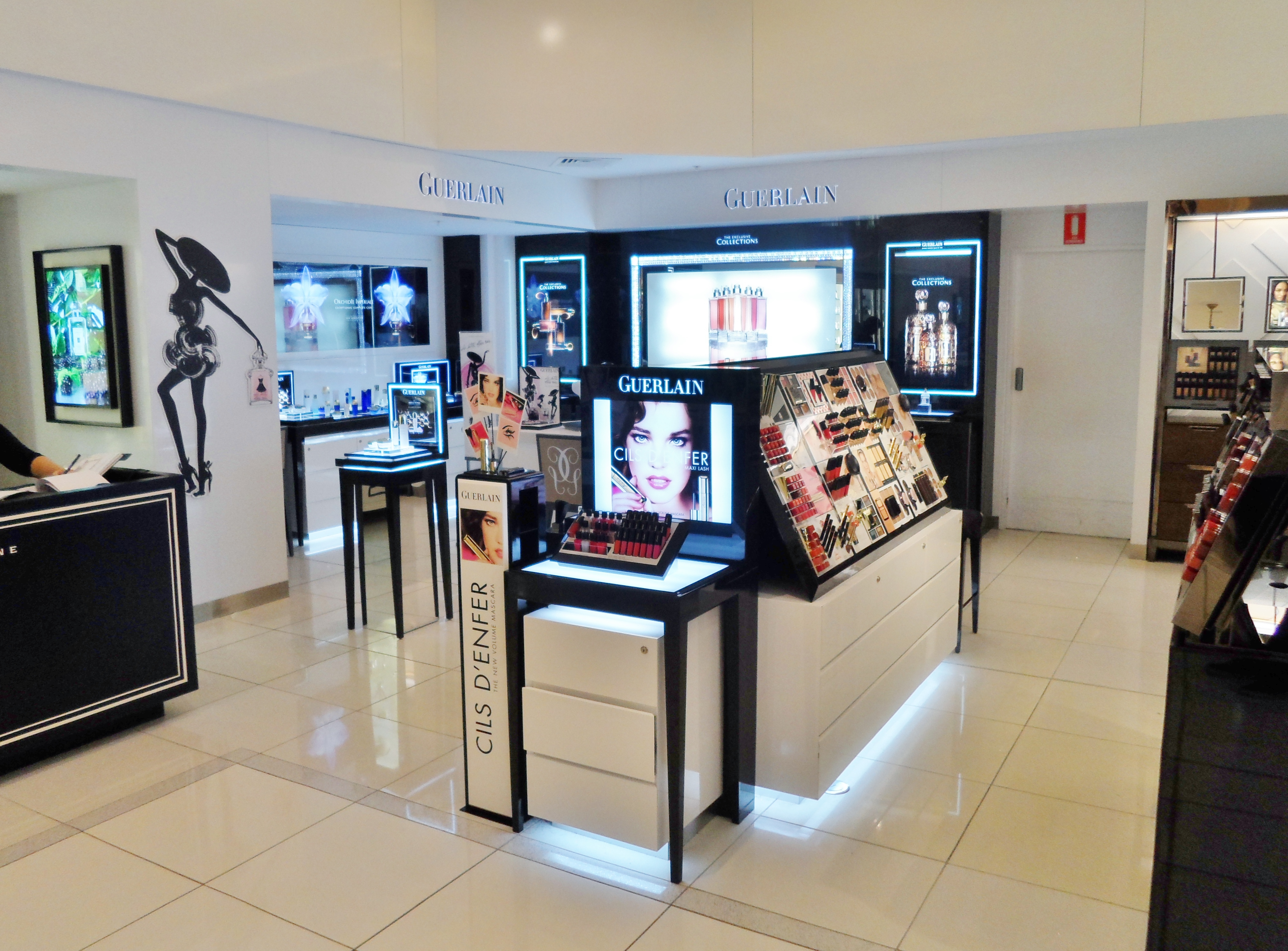 Counter for French cosmetics brand Guerlain at the Elizabeth Street, Sydney branch of Australian luxury department store David Jones in 2013.